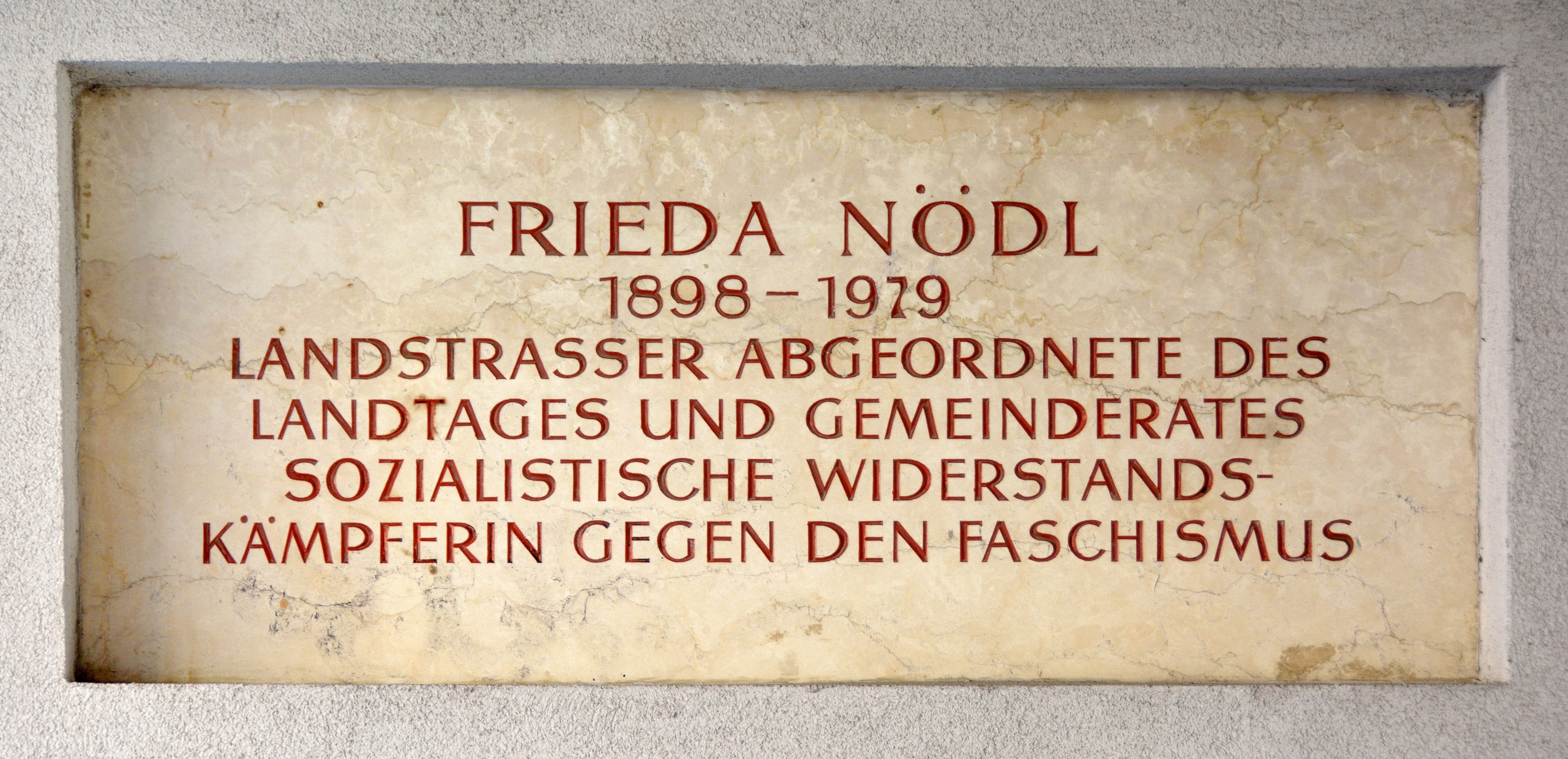 Plaque at community residential building named after Frieda Nödl, Rochusgasse 3-5, 3rd district of Vienna